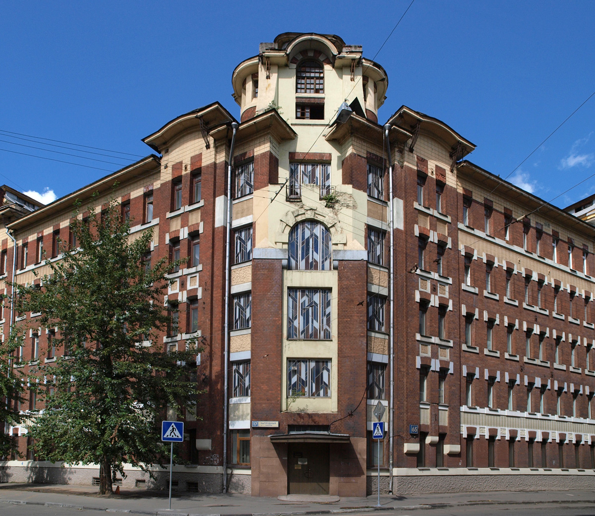 65, Gilarovskogo Street, Moscow. A 1908 apartment block, second stage of [then] low-income Solodovnikov Apartments for the Singles. Architects: Marian Peretyatkovich, Traugott Bardt